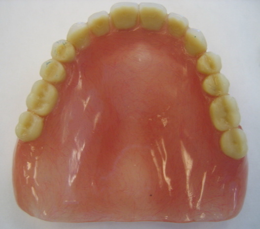 Occlusal of complete denture, example.